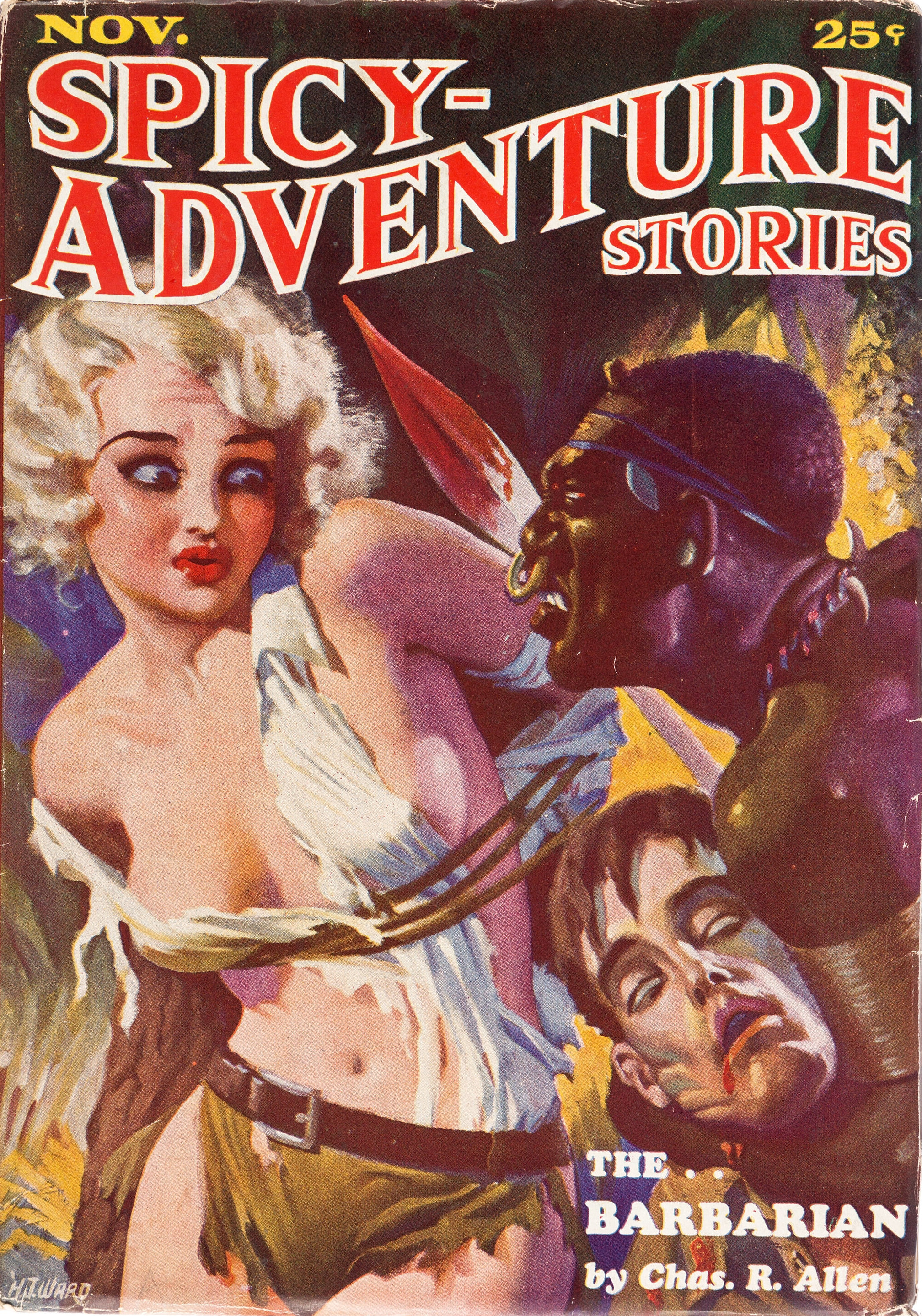 Cover of the pulp magazine Spicy-Adventure Stories (November 1934) featuring "The Barbarian" by Chas. R. Allen.